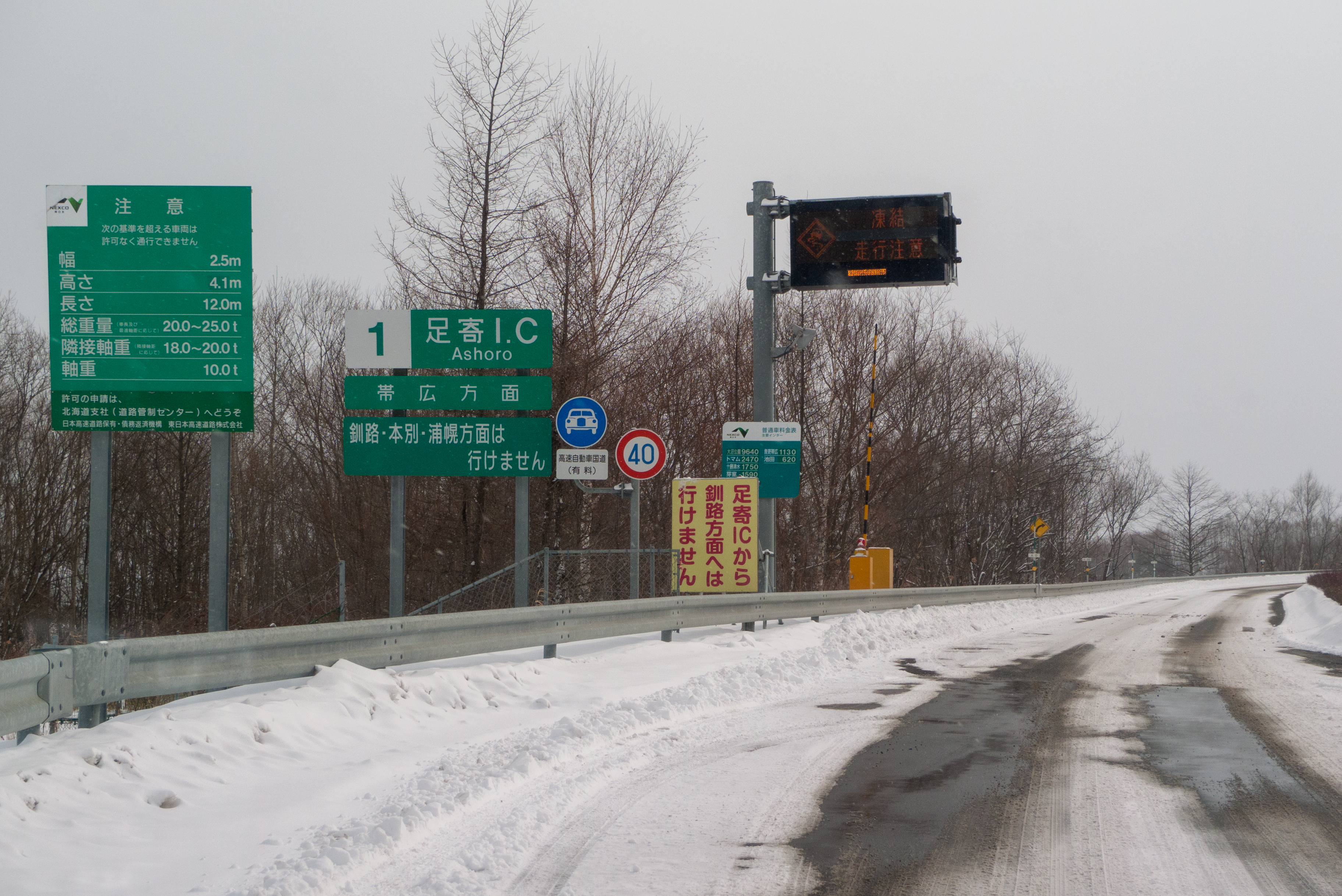 Ashoro Interchange on the Doto Expressway in Ashoro Town, Hokkaido, Japan